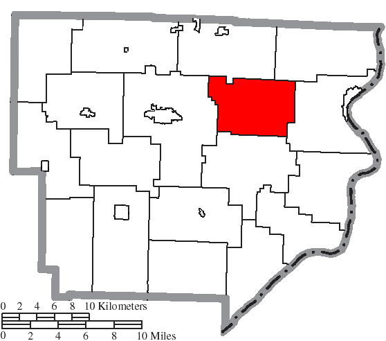 Map of the municipal and township boundaries of Monroe County, Ohio, United States, as of the 2000 census, with the location of Adams Township highlighted. Township borders are shown only in unincorporated areas in order to differentiate incorporated and unincorporated areas more clearly.